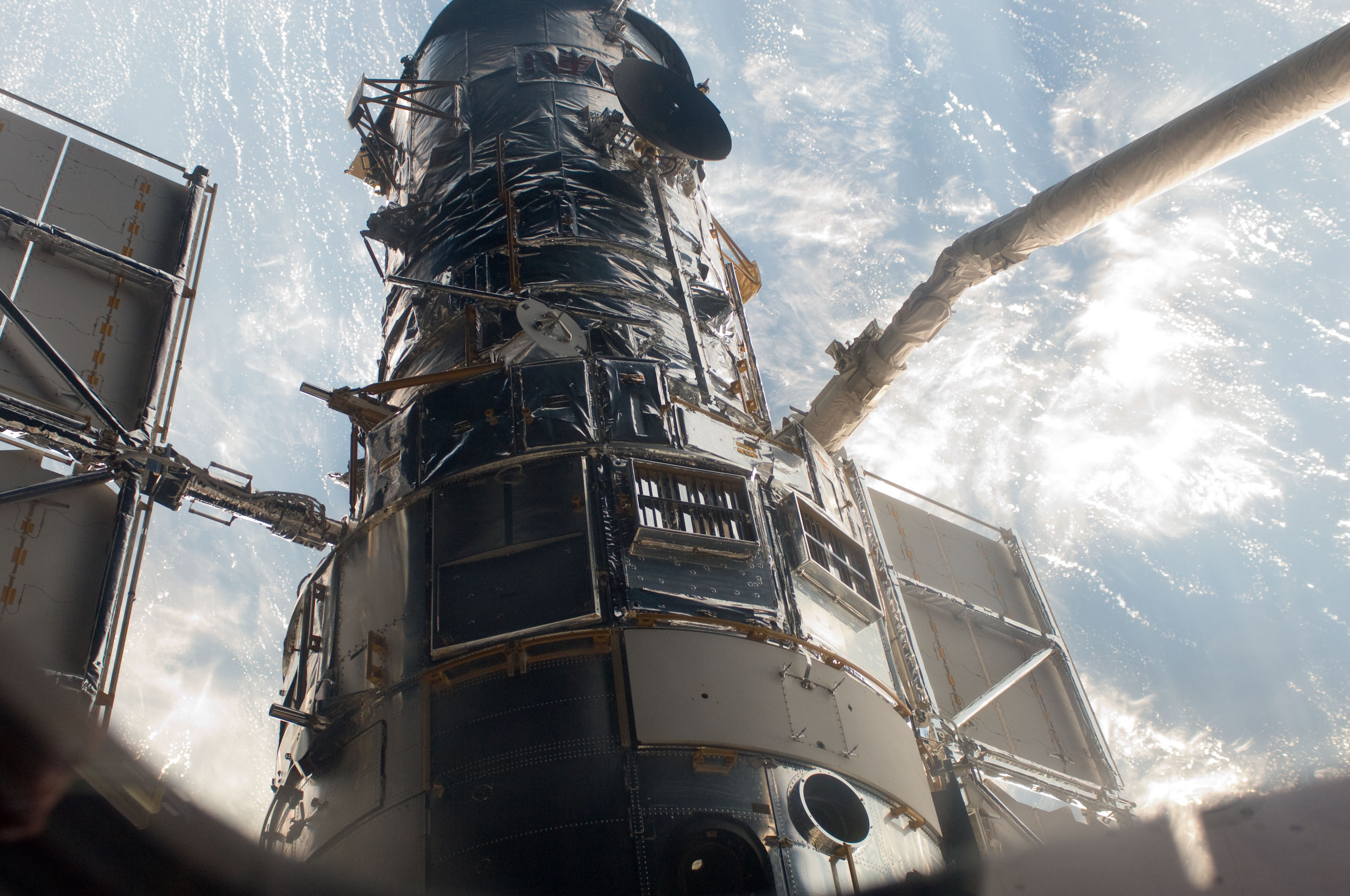 An STS-125 crewmember onboard the Space Shuttle Atlantis snapped a still photo of the Hubble Space Telescope following grapple of the giant observatory by the shuttle's Canadian-built remote manipulator system.